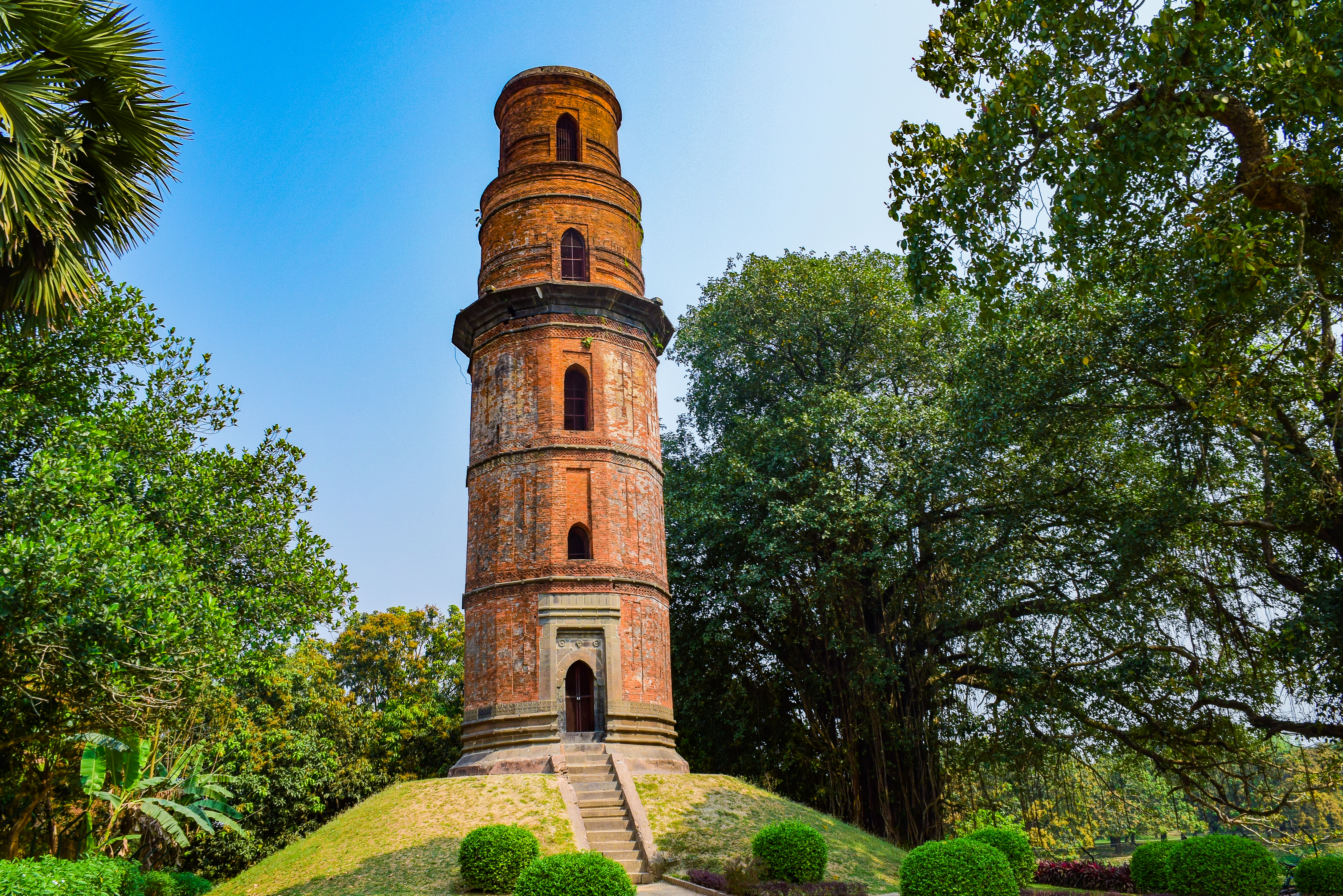 Built between 1486-89 by Saifuddin Firoze, Firoze Minar is a 25.60 metres high tower with spiral staircase. Saifuddin Firoze was an Abyssinian who became Sultan by killing Barbak Shah.